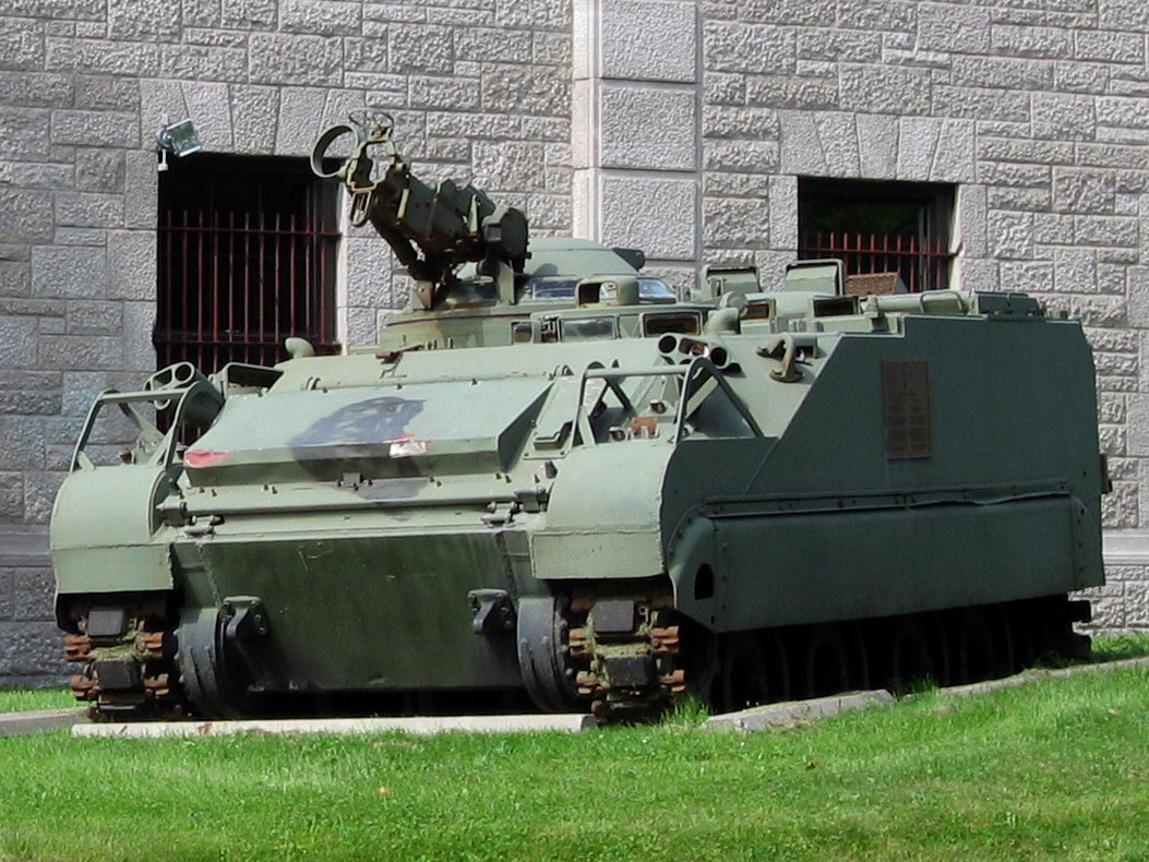 Lynx reconnaissance vehicle of the Royal Canadian Hussars, installed in front of the Côte-des-Neiges Armoury in Montréal.